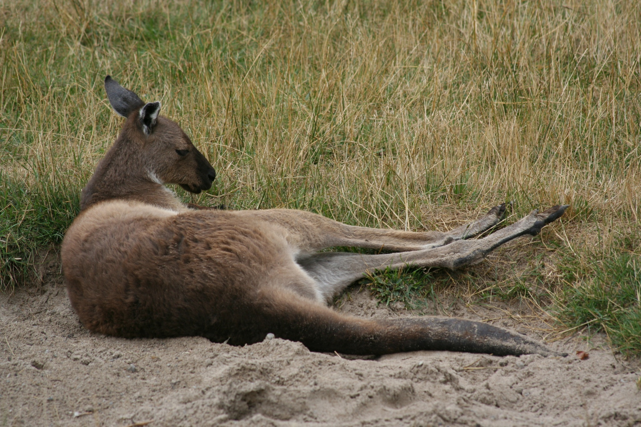 Western Grey Kangaroo, resting in the sand. Taken at the Toronto Zoo with a Canon EOS 350D & 70-300mm f4-5.6 IS USM lens. – Ber'Zophus